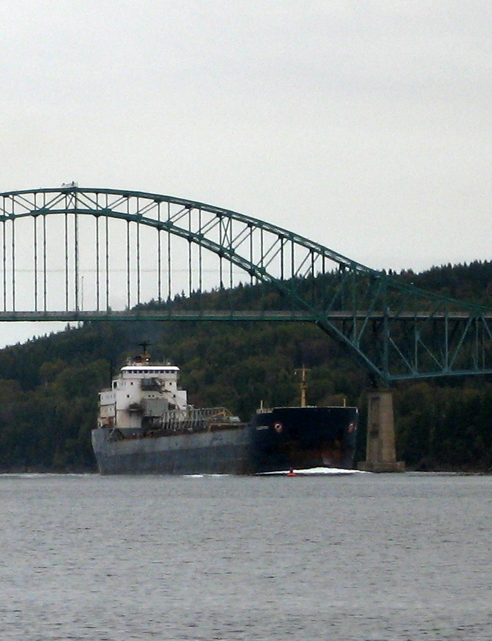 The medium sized self-unloader Algoport passing under the Seal Island Bridge entering Cape Breton Island's Bras d'Or Lake system to load at Little Narrows Gypsum.